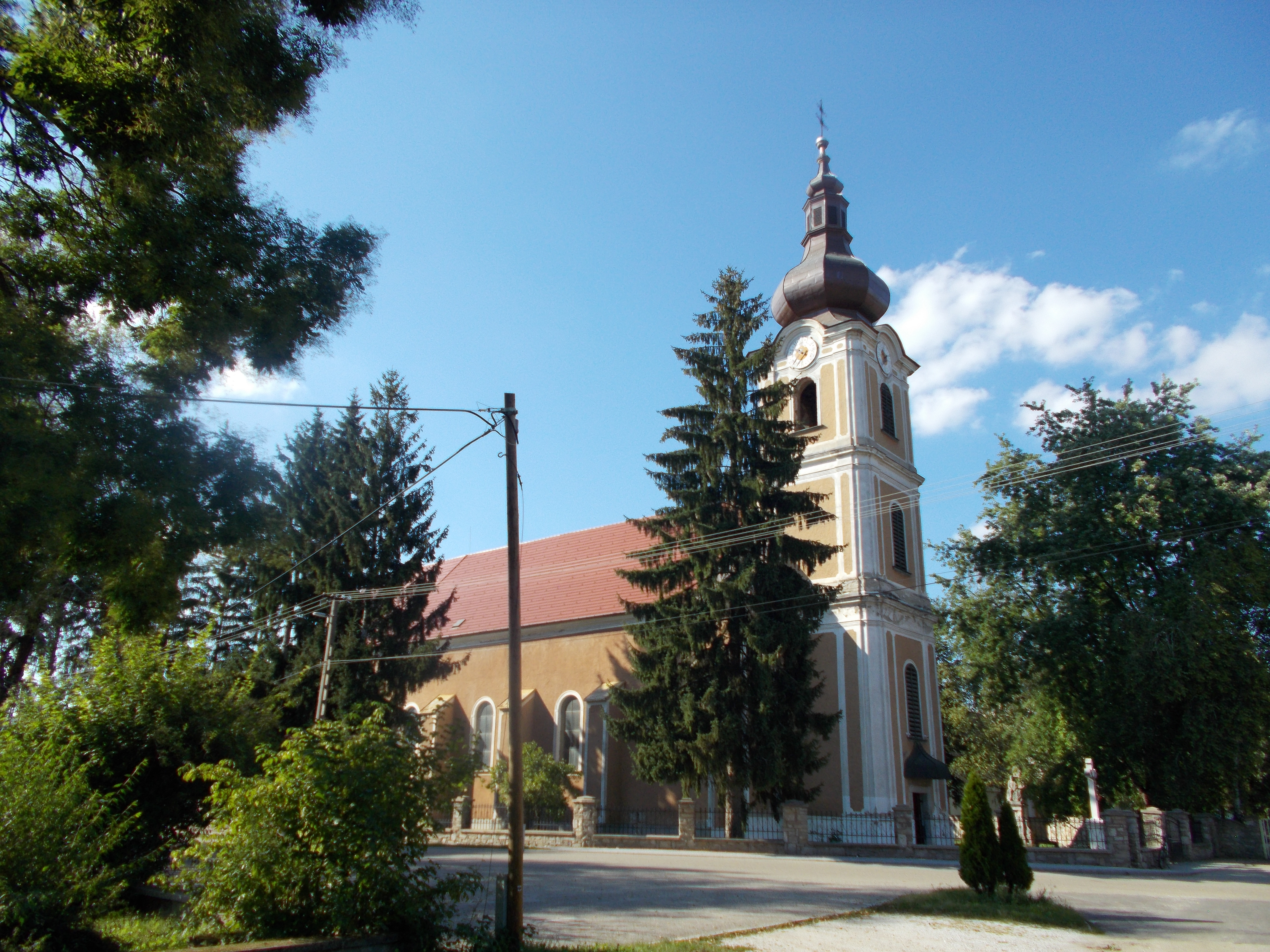 The Catholic Church in Szendrő